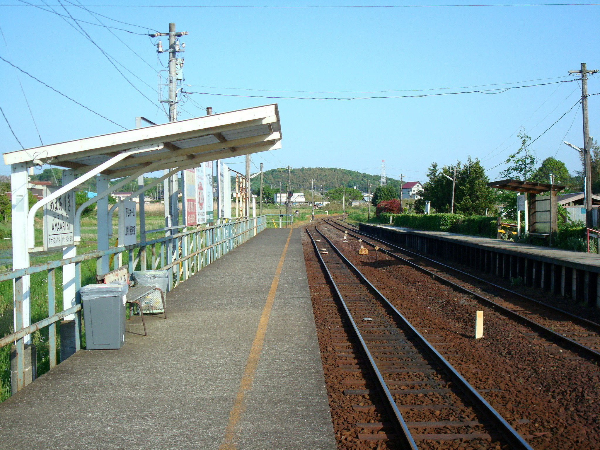 Amaariki Station on the Kominato Line, Ichihara, Chiba, Japan